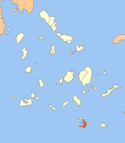 Locator map of Thira municipality (Δήμος Θήρας) in Cyclades prefecture (Νομός Κυκλάδων) in Greece.